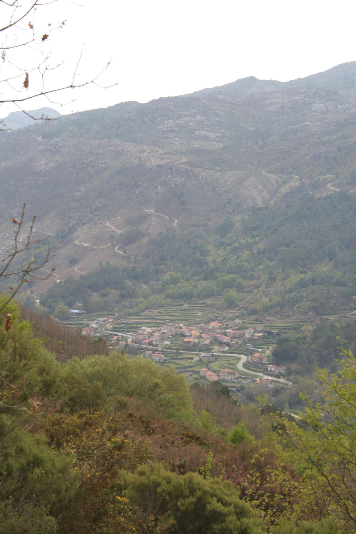 Torneiros, Río Caldo, Lobios (Spain)